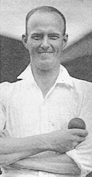 Bill O'Reilly, Australian cricketer